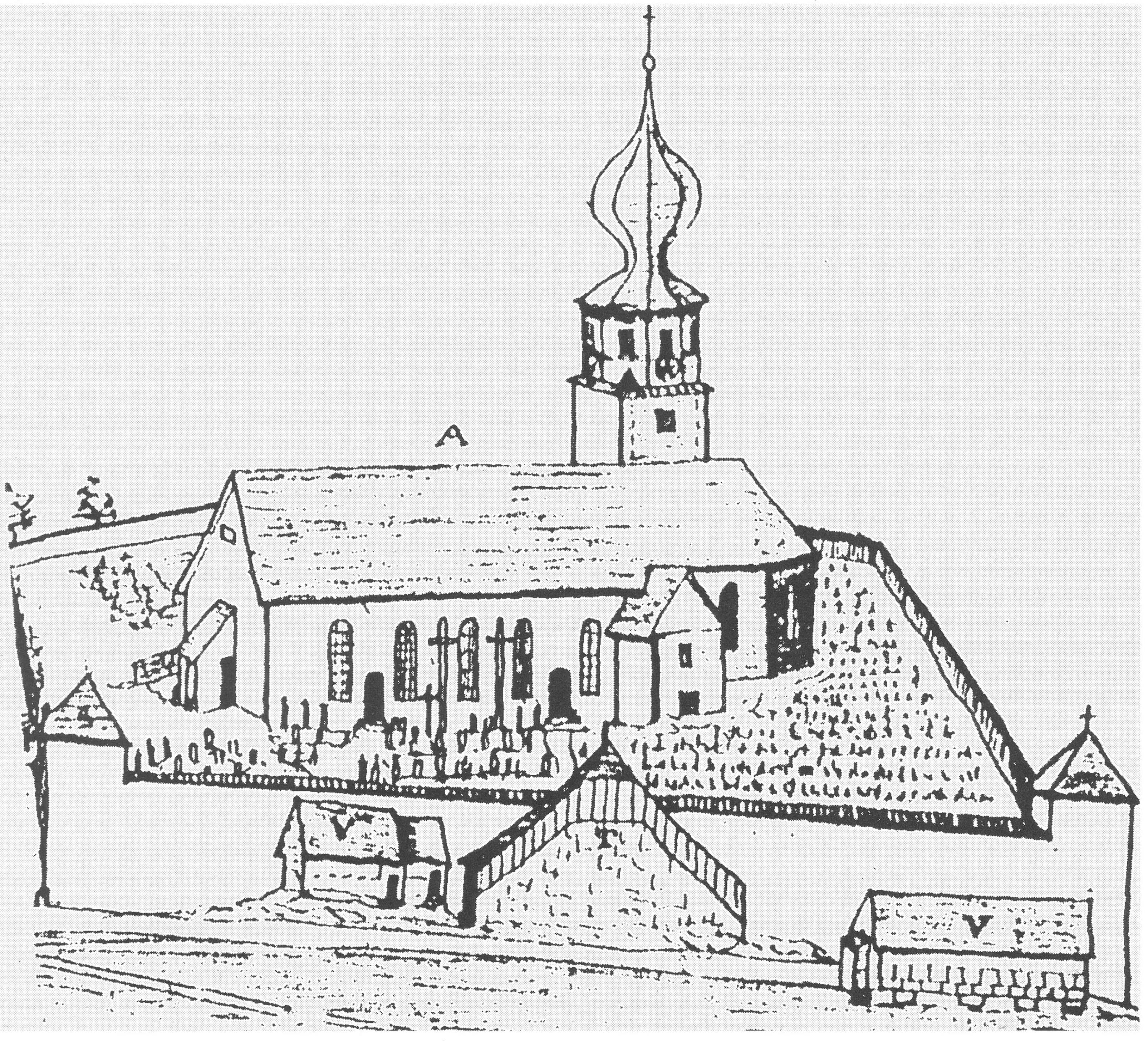 Drawing of the church of Allerheiligen in Vöhrenbach-Urach, Black Forest